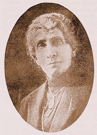 Guillermina Von Kalchberg de Froemel